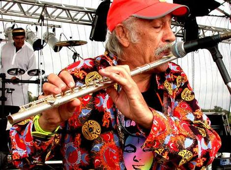 Raja Ram